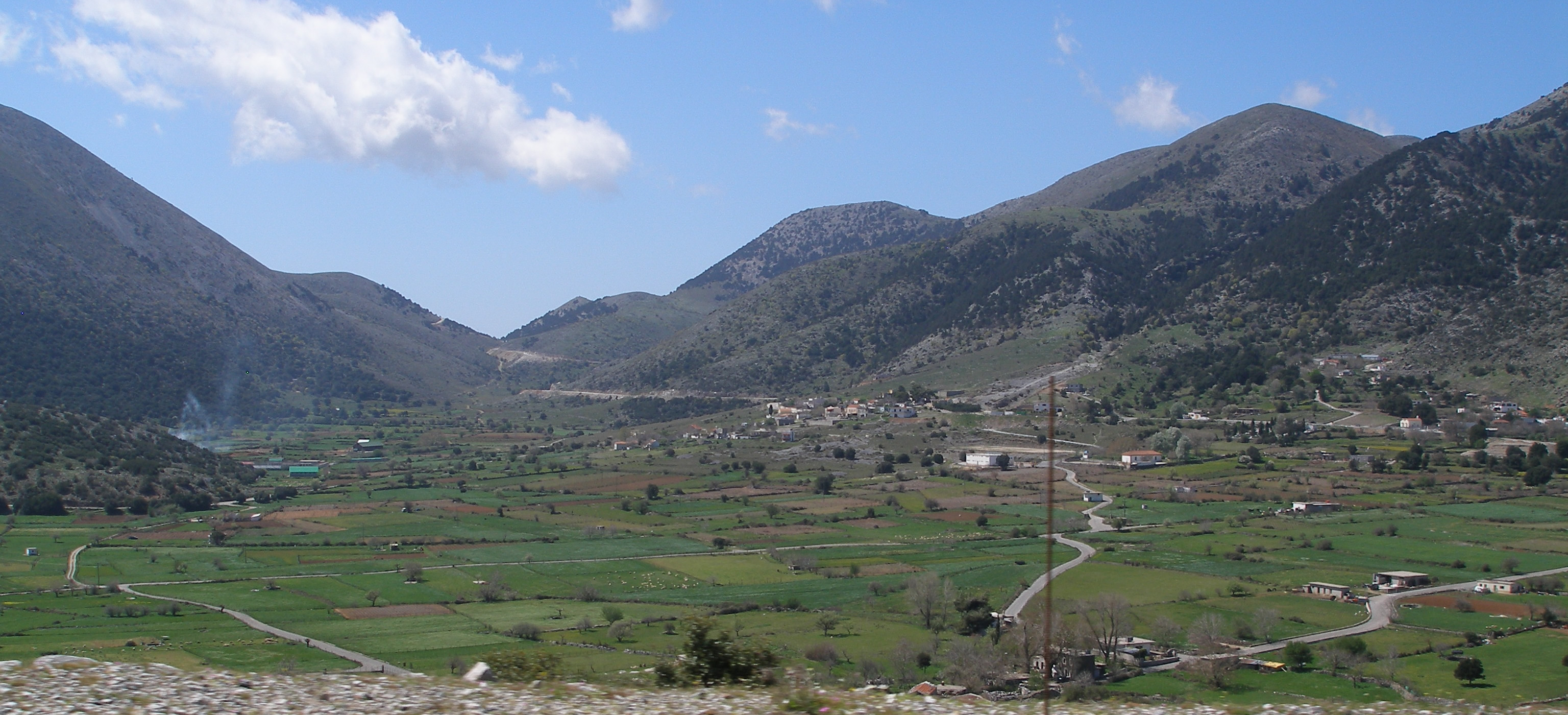 Plateau of Askifou in the east part of Lefka Ori, Crete, Greece.